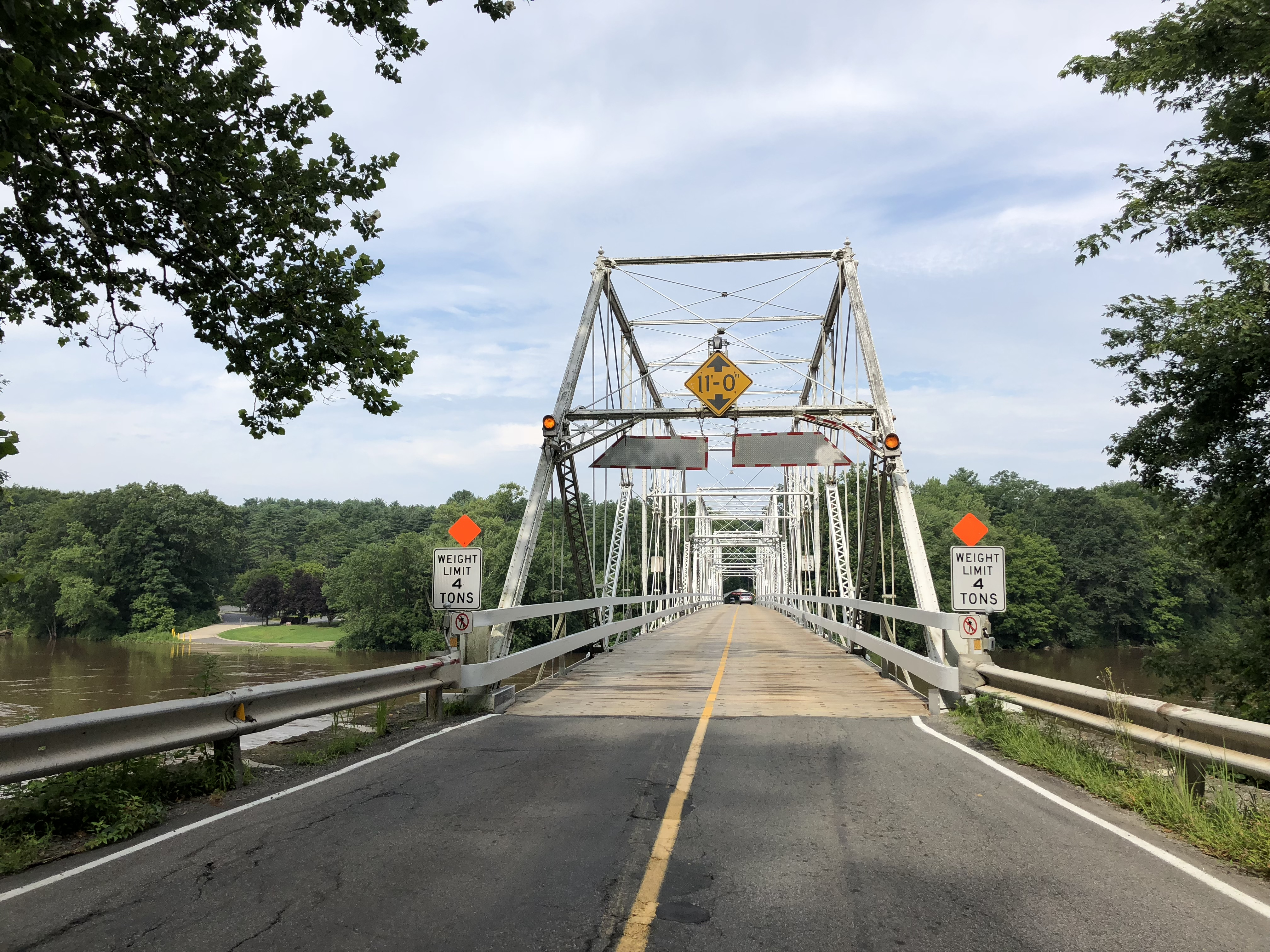 View west along Sussex County Route 560 (Dingmans Ferry Bridge) just west of Old Mine Road in Sandyston Township, Sussex County, New Jersey